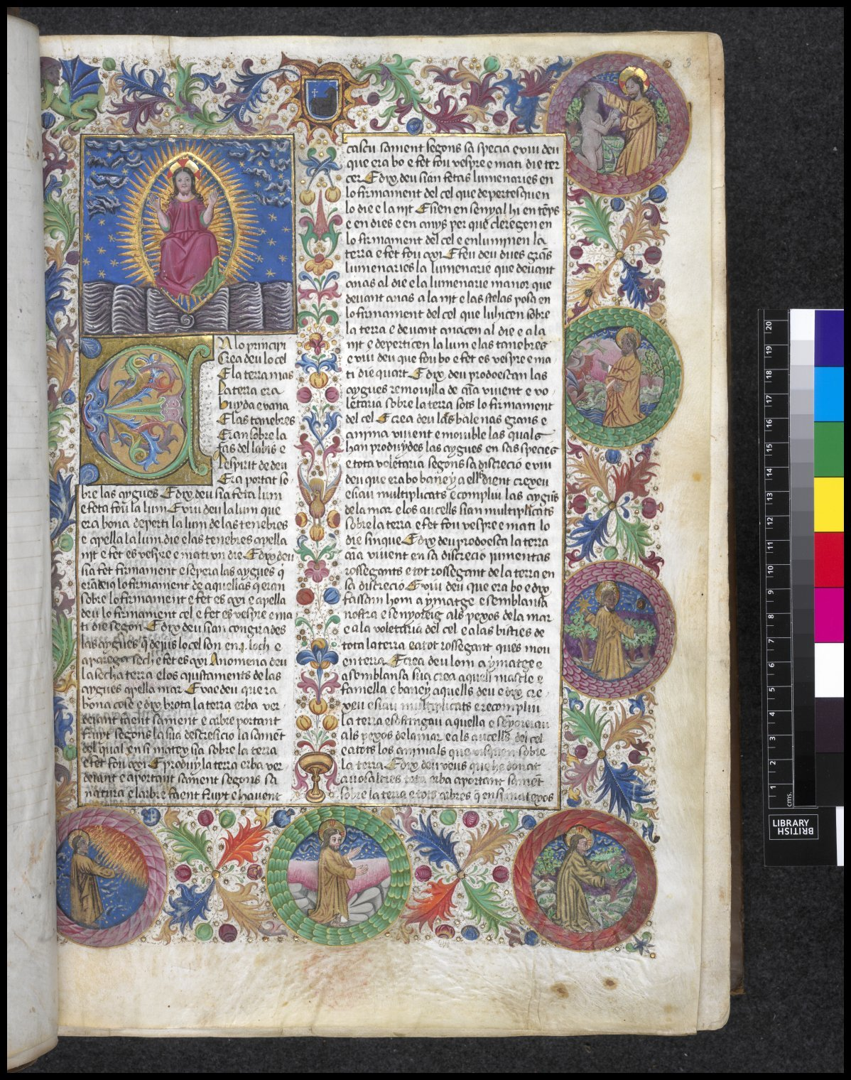 This is a rare medieval copy of the Old Testament in Catalan. The decoration of the beginning of Genesis in this copy is closely related to one of the other surviving copies, now in Paris. The Bible was first translated into Catalan as word-by-word rendering from the French, commissioned by King Alfonso III of Aragon (Count of Barcelona) (1265-1291). The text in this fifteenth-century copy is a translation from the Latin Vulgate, although it incorporates certain phrases and glosses from a French translation.